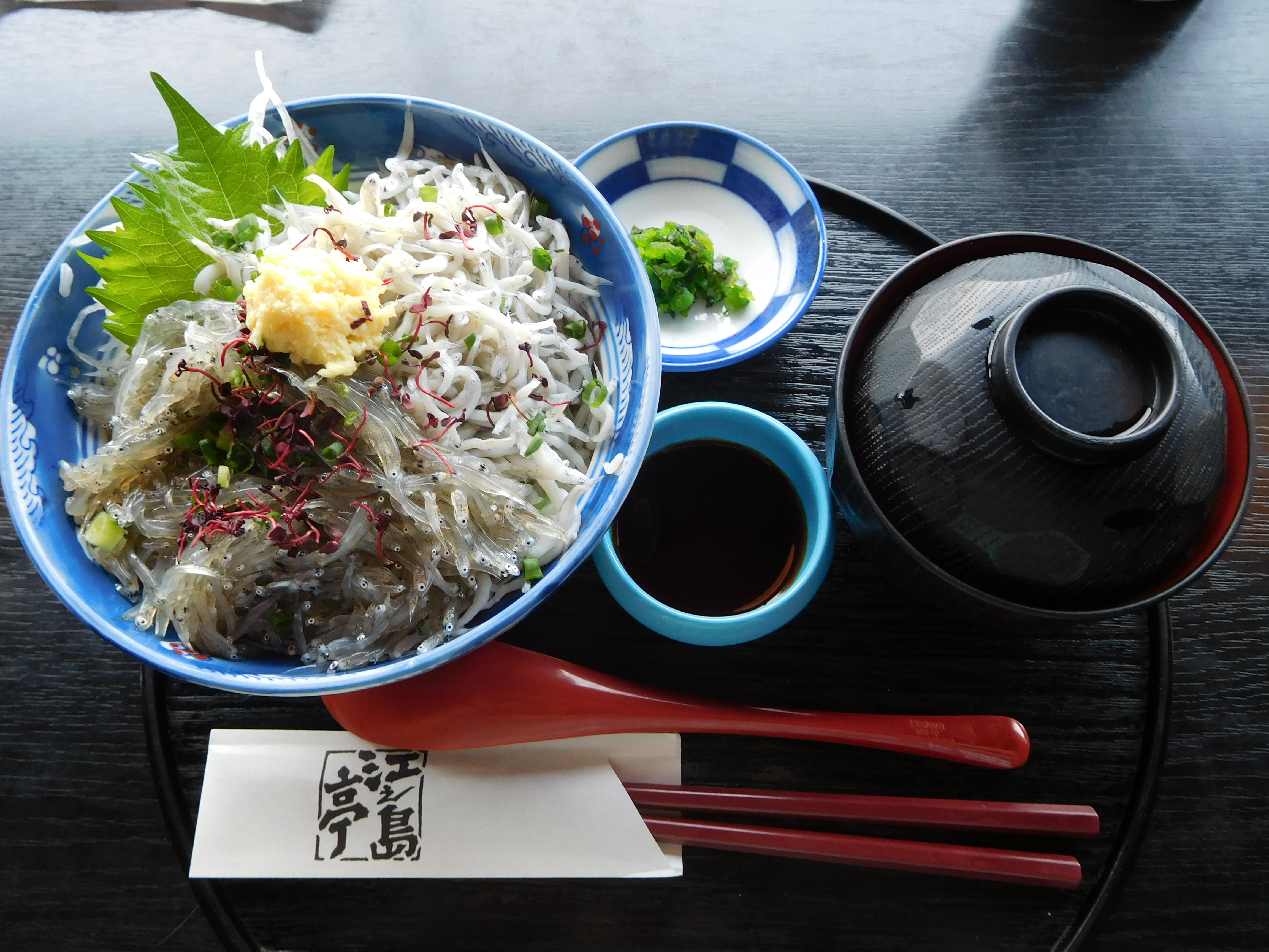 Shirasu-don or whitebait rice bowl at Enoshima, Fujisawa, Kanagawa, Japan.